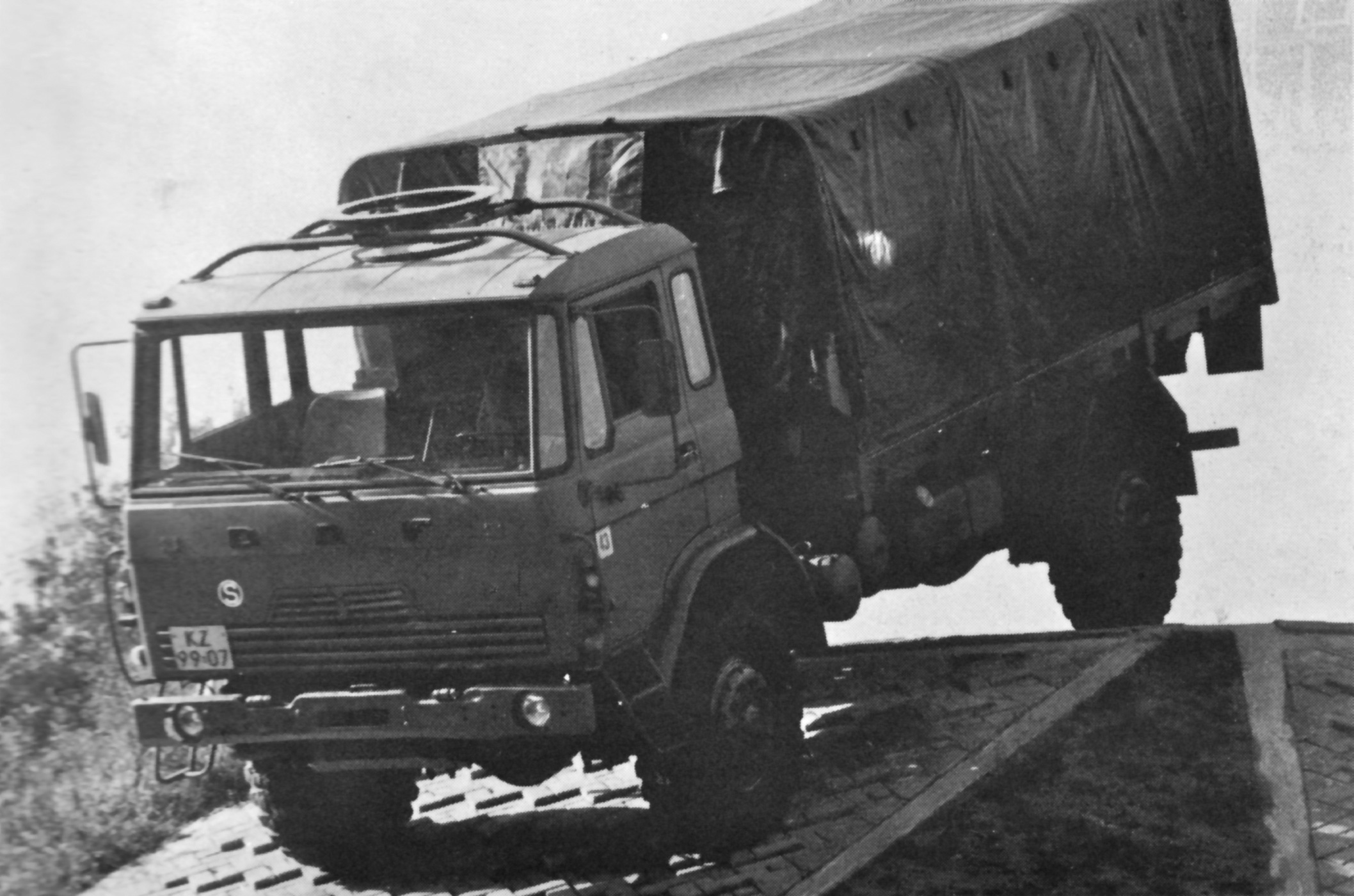 Prototype DAF 4 ton Standard Army truck 1976